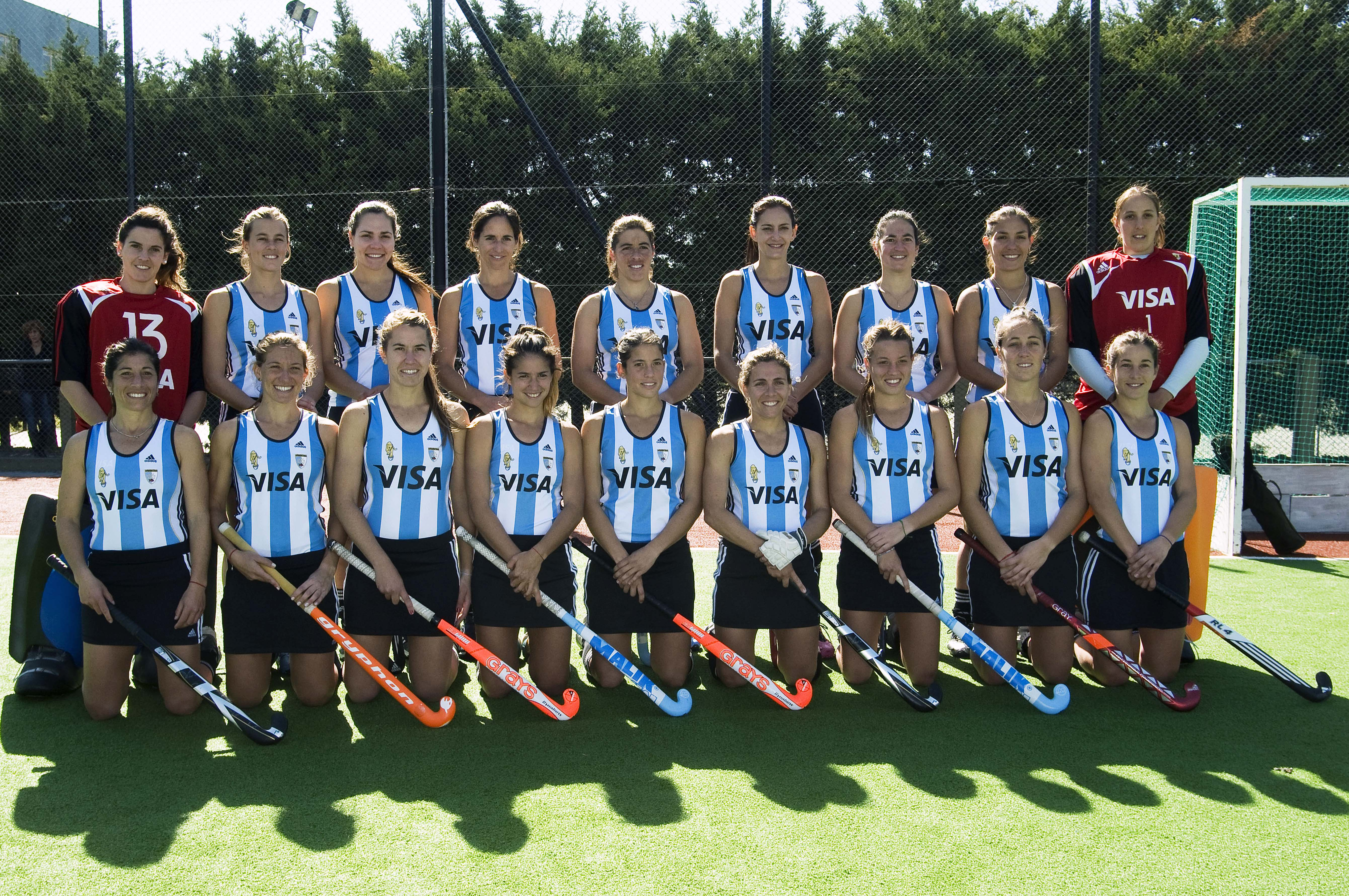 The Argentina national women's field hockey team (a.k.a. Las Leonas) in 2010, before the Rosario World Cup. Official picture taken by the Argentine Hockey Federation.